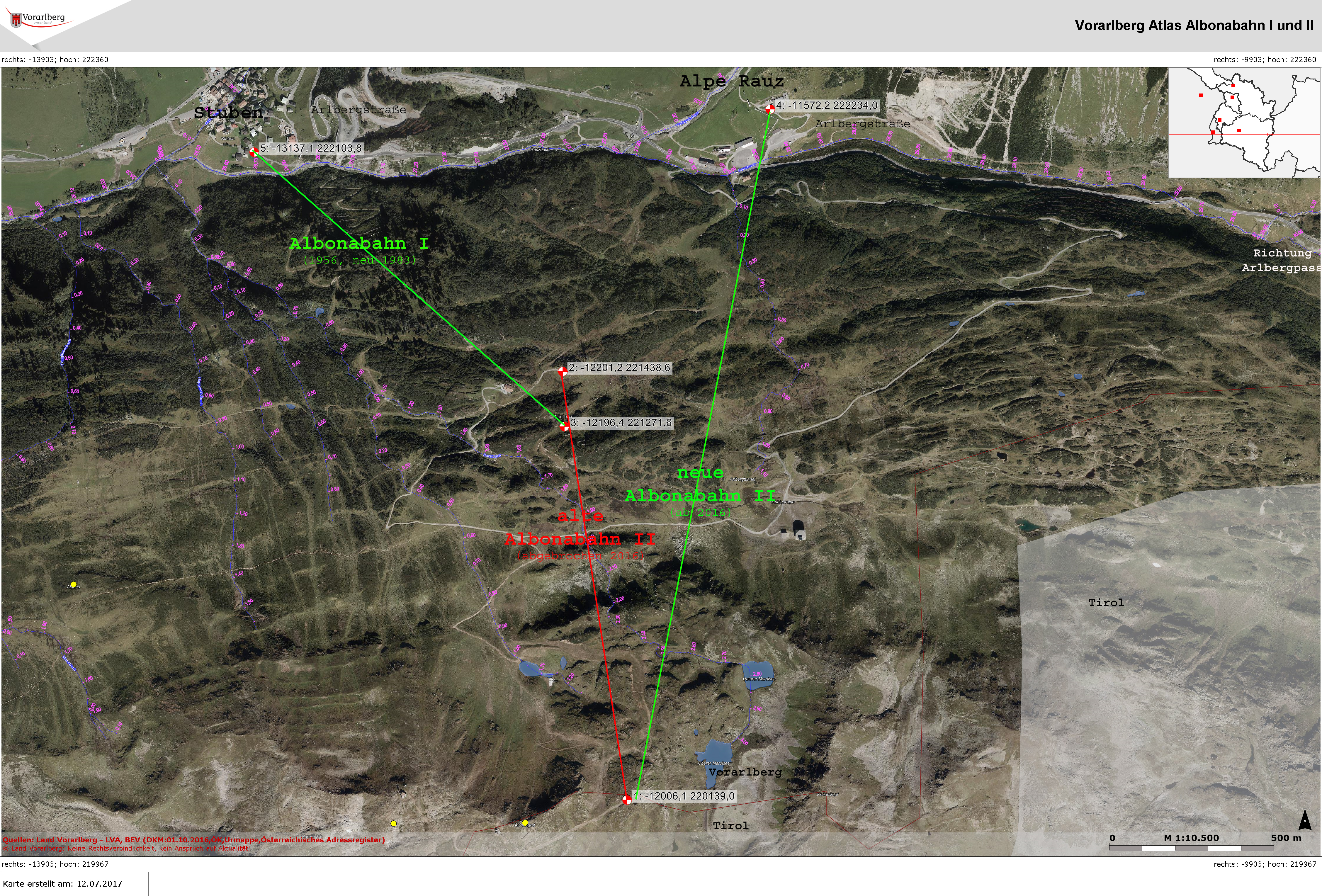 Aerial photo Albonabahnen I and II - Stuben - Lechquellgebirge - Alpe Rauz in Vorarlberg and Tirol, Austria. Source of the aerial photo: Land Vorarlberg without extensions.